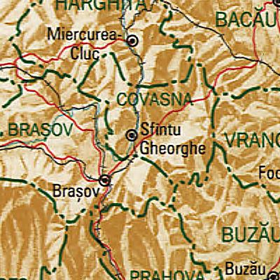 Map of Covasna County, Romania.